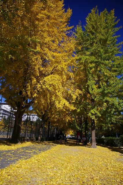 Shimo-Fukushima park, Osaka, Japan